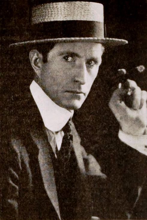 Actor Russell Simpson, on page 76 of the August 7, 1920 Exhibitors Herald.